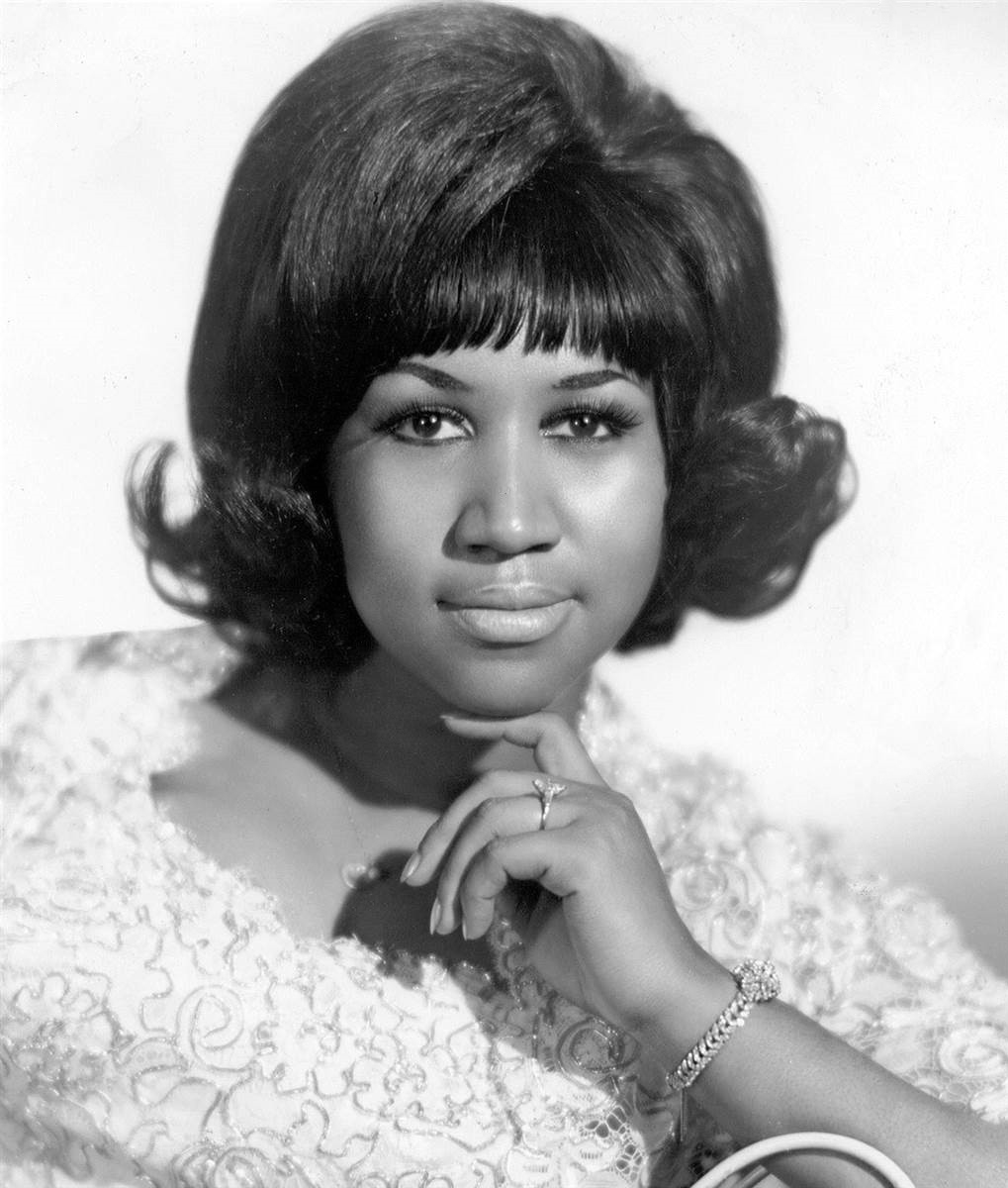 Publicity photo of Aretha Franklin from Billboard, 17 February 1968. The uploaded photo is a better quality copy of the image shown in the ad. There are no copyright markings as can be seen at the full view link. Atlantic Records did not mark this special ad section with copyright mark(s); the Billboard copyright covers editorial content only-not advertisements, which would need to have their own copyrights for protection. see page 14 Special section for mark. The ad is not covered by any copyrights for Billboard. US Copyright Office page 3-magazines are collective works (PDF) "A notice for the collective work will not serve as the notice for advertisements inserted on behalf of persons other than the copyright owner of the collective work. These advertisements should each bear a separate notice in the name of the copyright owner of the advertisement."